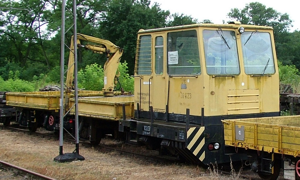 track maintenance vehicle MZG 023 in Buckow Station, Brandenburg, Germany